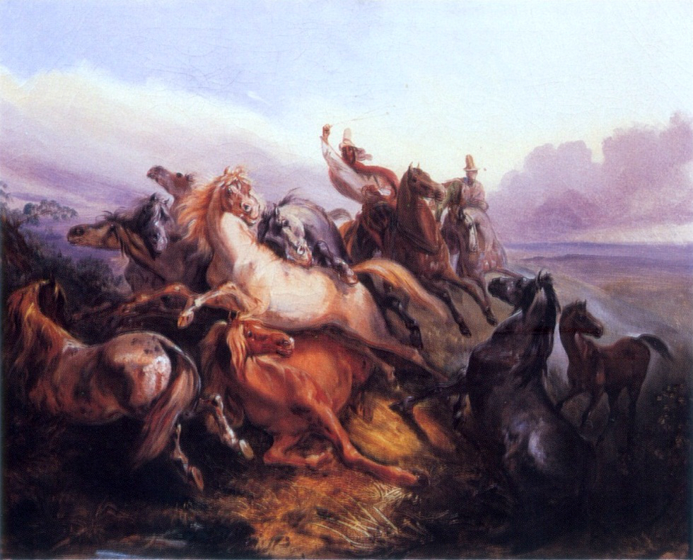 Argentine Gauchos and feral horses, 1846.